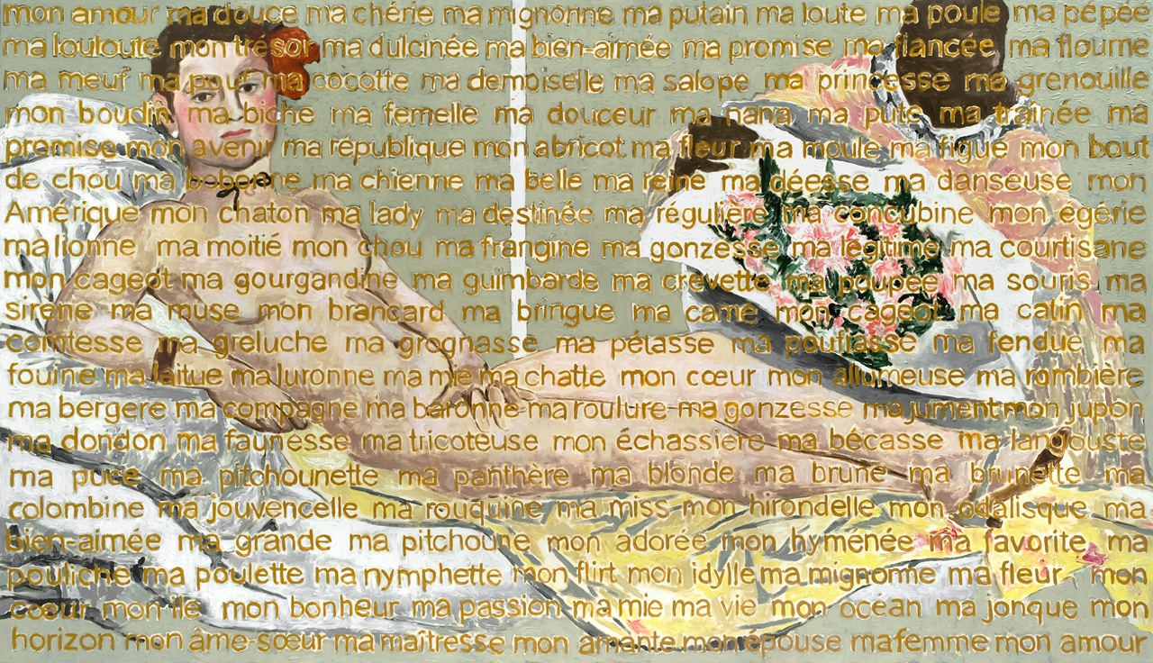 The work Olympia #2 (2012) by Agnès Thurnauer